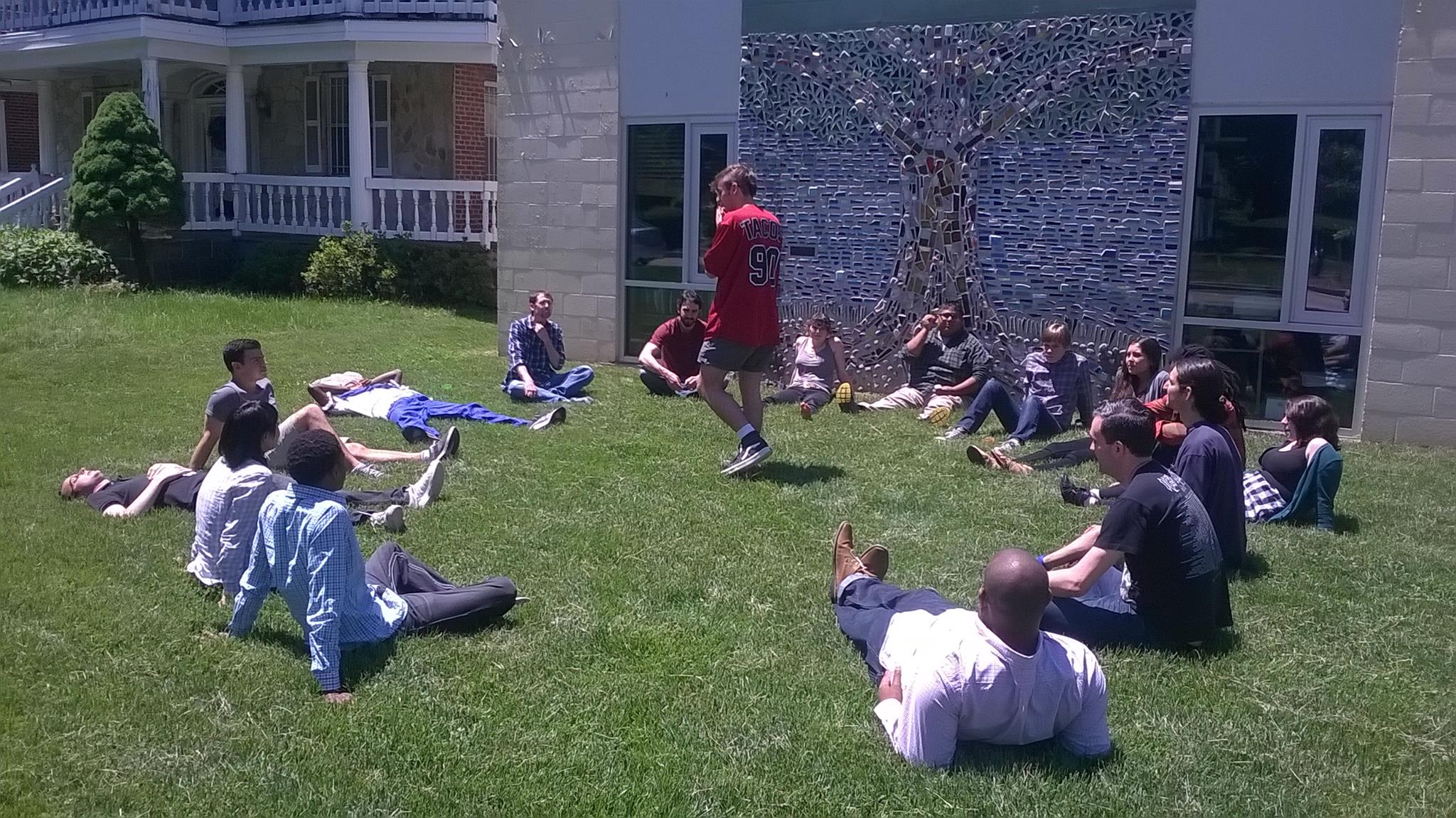 Future of Ethical Societies Conference, and Launch of IHEYO's Americans Working Group May 2015 Washington DC